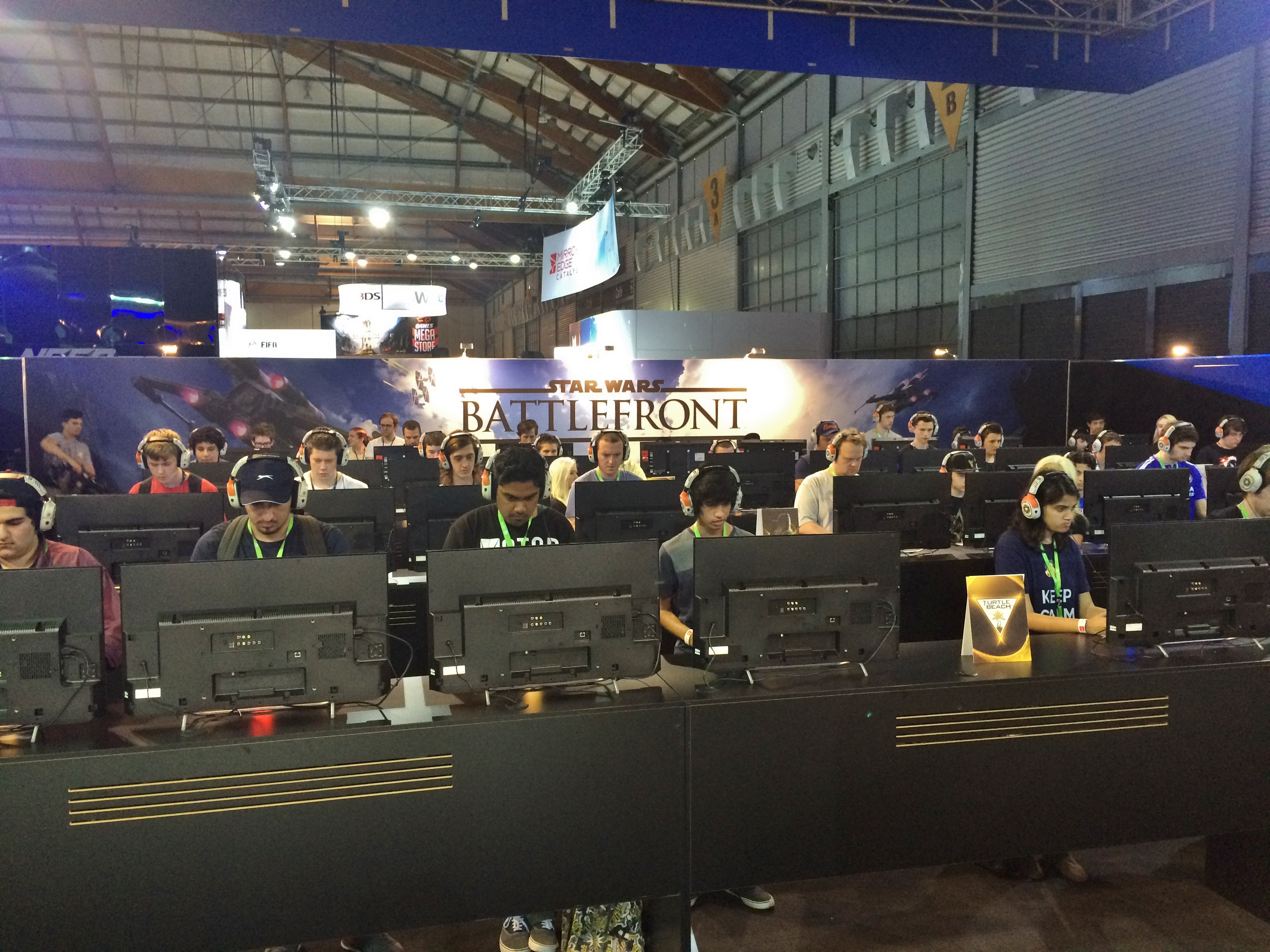 A group of 30 attendees play a single match of Star Wars Battlefront at the PlayStation booth during the 2015 EB Games Expo.